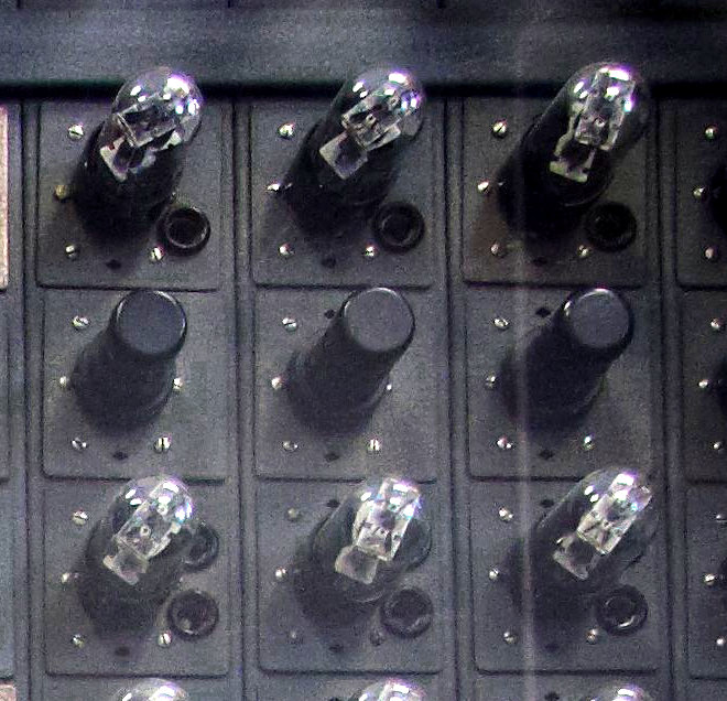 Ural-1 Lamps